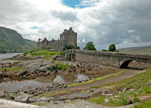 Eilean Donan Restored castle near Dornie. A popular tourist attraction on the way to the Kyles of Lochalsh.